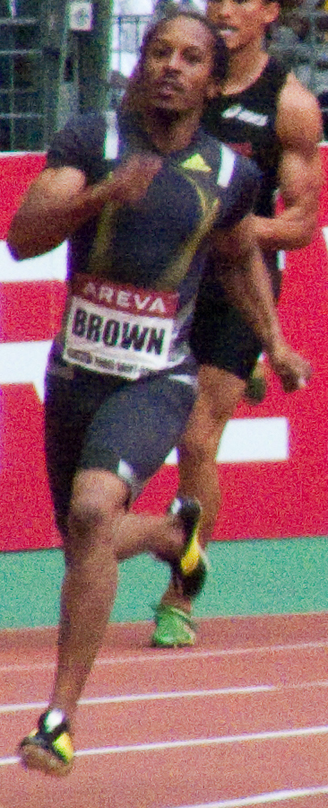 Christopher Brown sur 400 m du Meeting Areva 2009 à Saint-Denis.